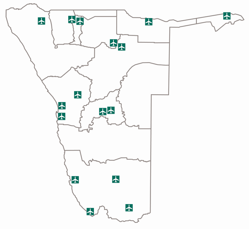 own work